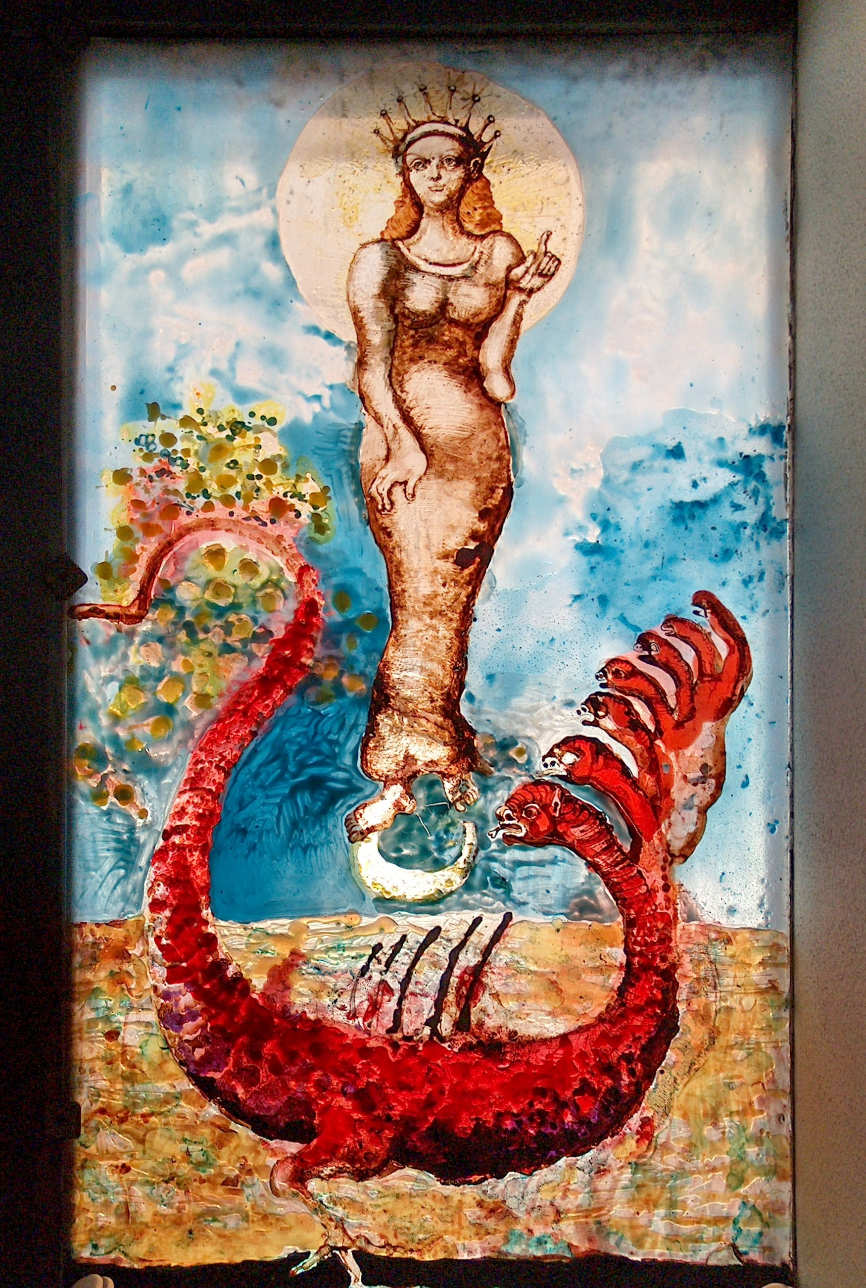 a stained glass of Jan Lebenstein